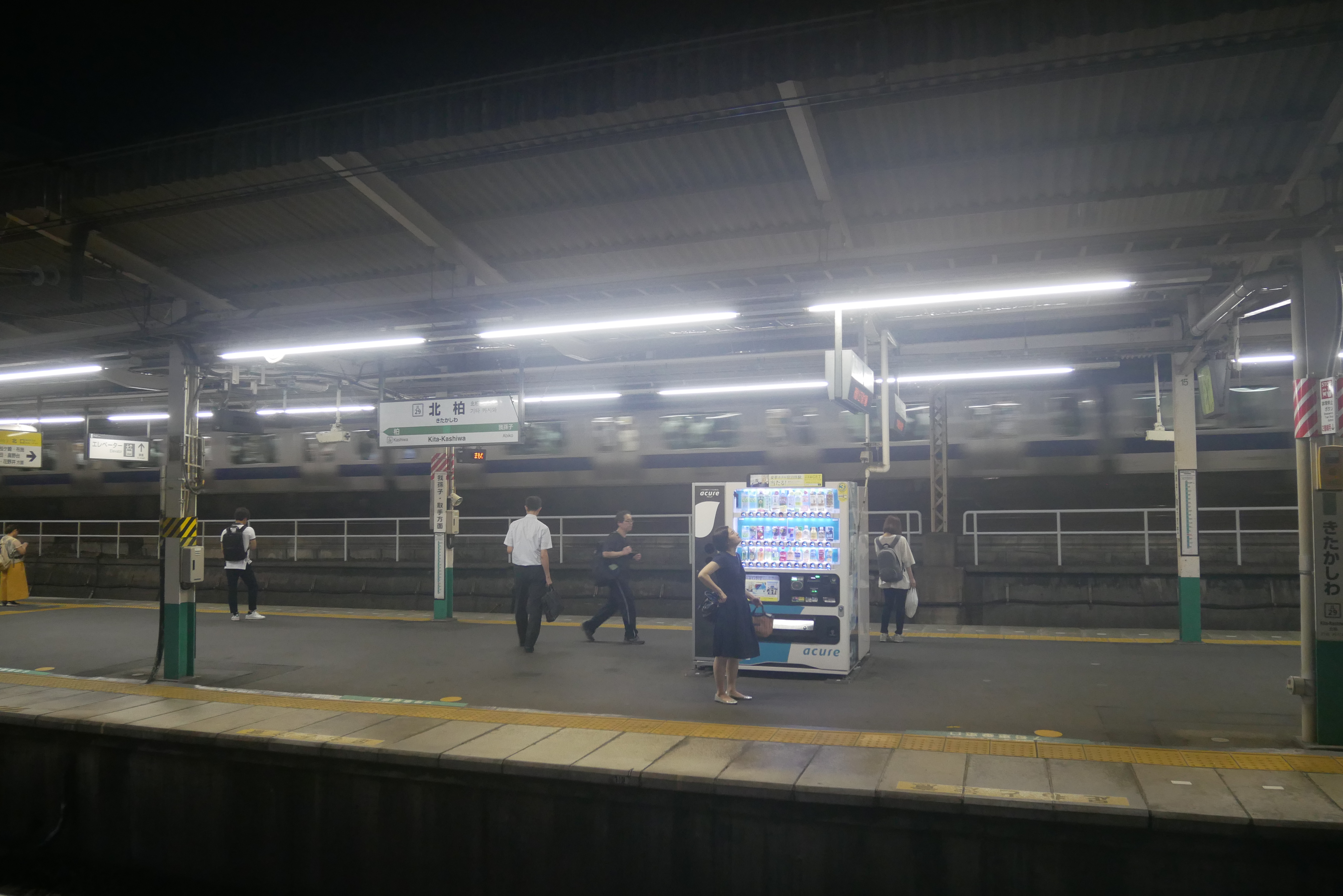 Kita-Kashiwa Station platforms (北柏駅のホーム)